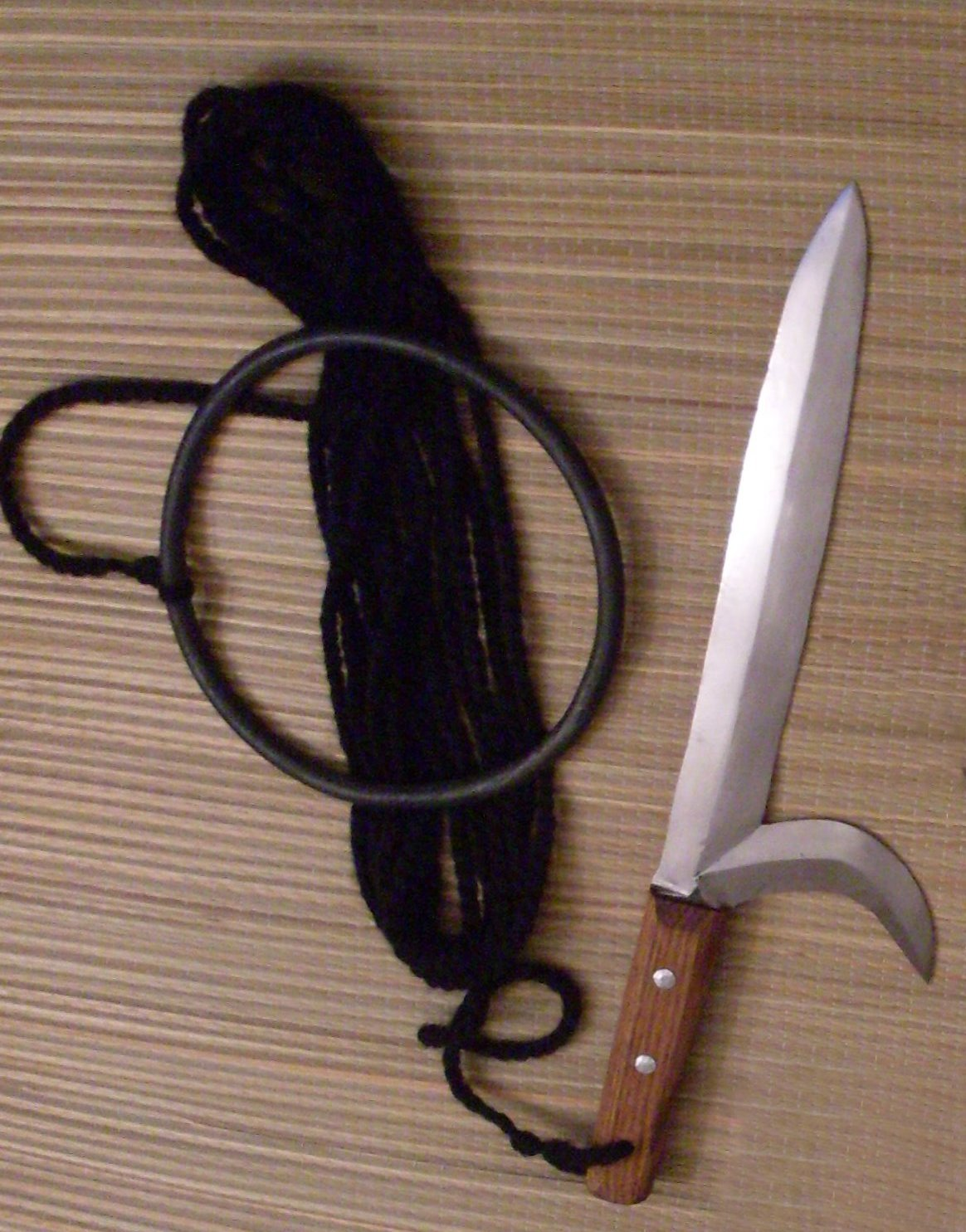 I made these myself over a month ago. They're both hand forged from one piece of 1095 steel and attached to a large metal ring with 20ft of cord. I did not copyright these, so feel free to use.